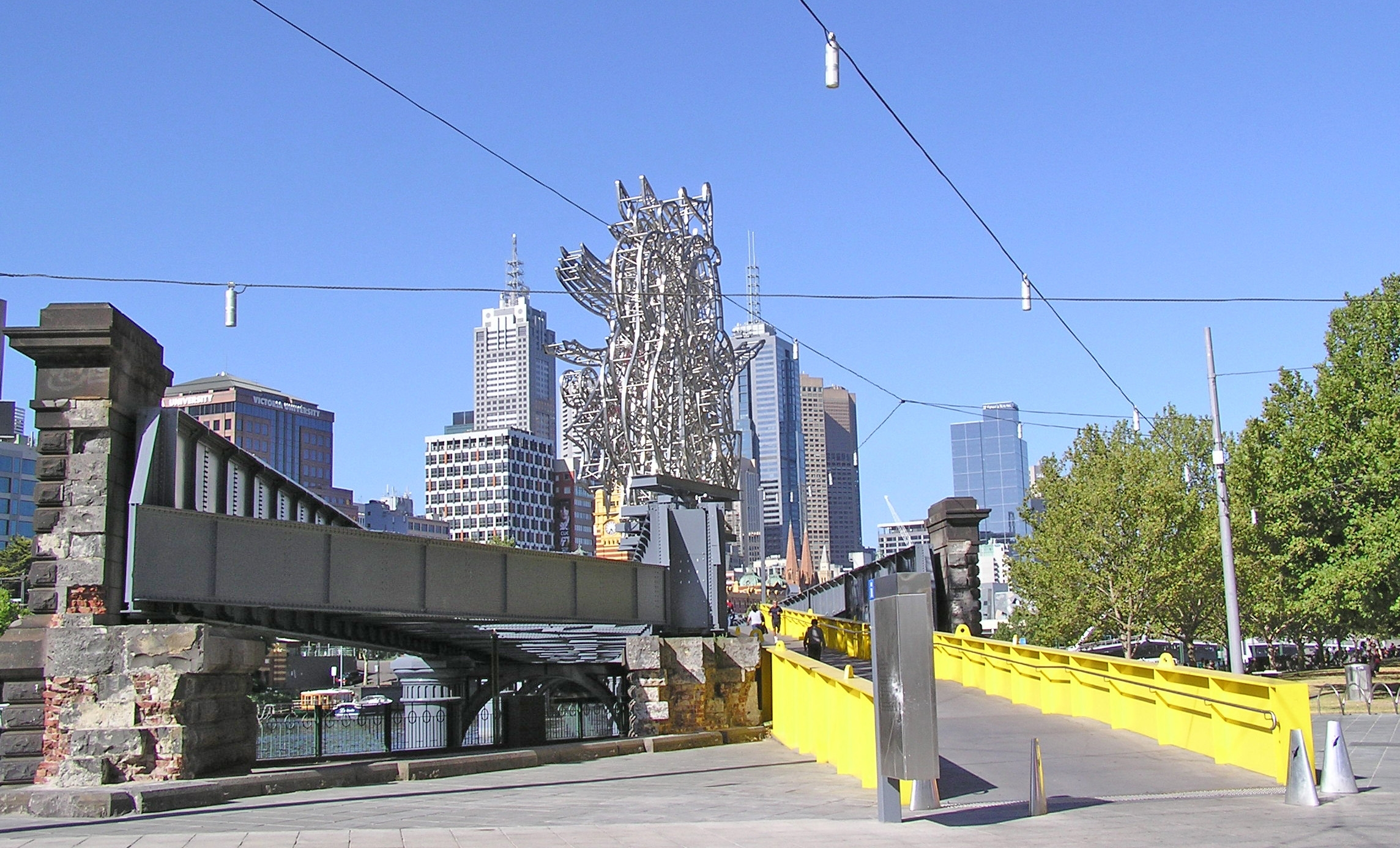 Sandridge Bridge Built 1888 (Historical Site) Redeveloped